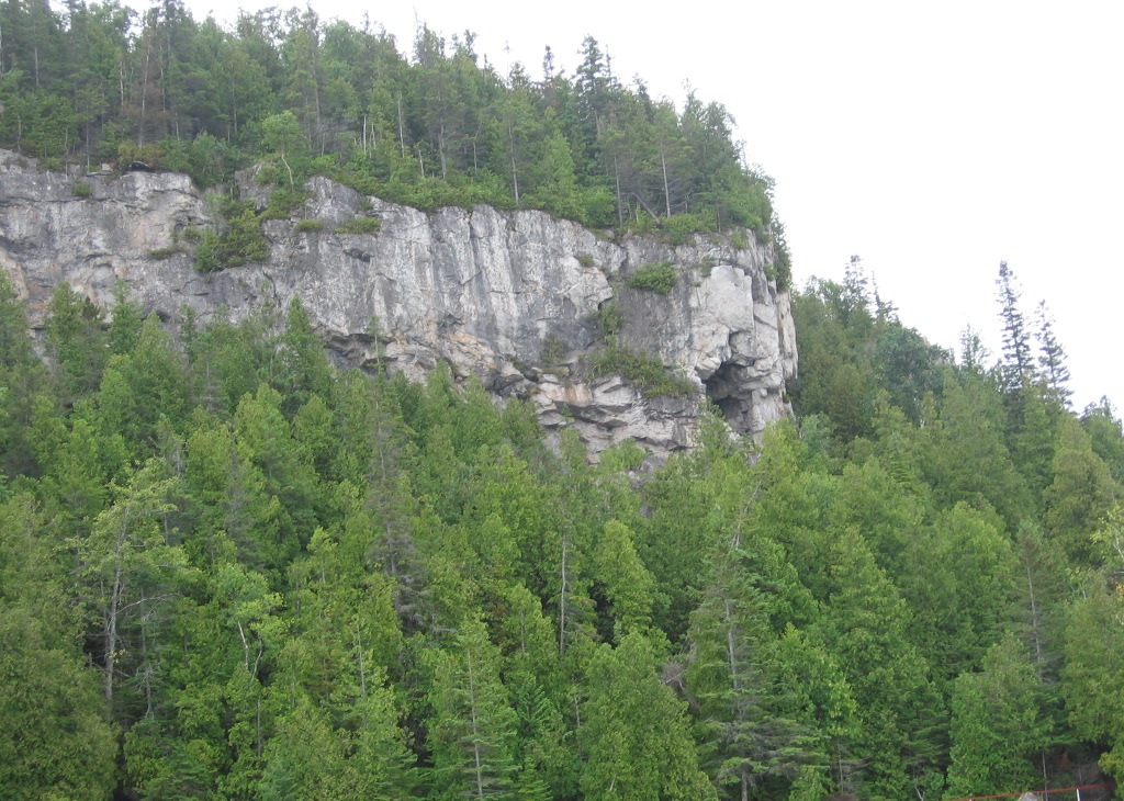 Part of the in the Fathom Five National Marine Park in Onartio, Canada.